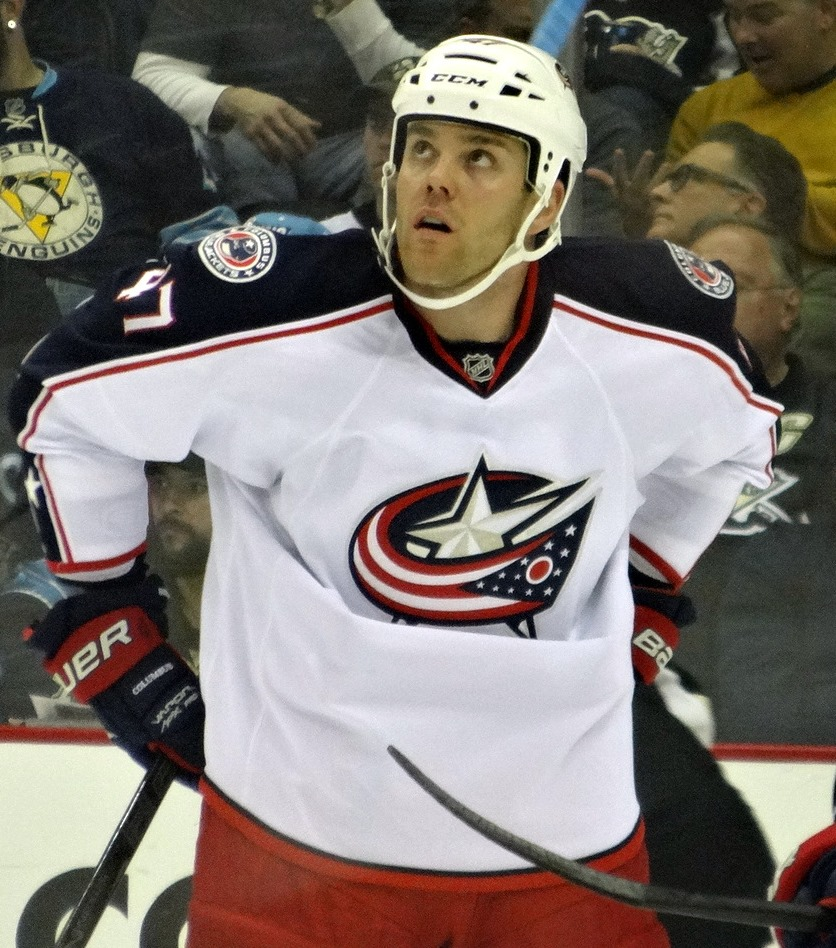 Columbus Blue Jackets defenseman Dalton Prout during a game against the Pittsburgh Penguins, November 1, 2013, at Consol Energy Center in Pittsburgh, PA.